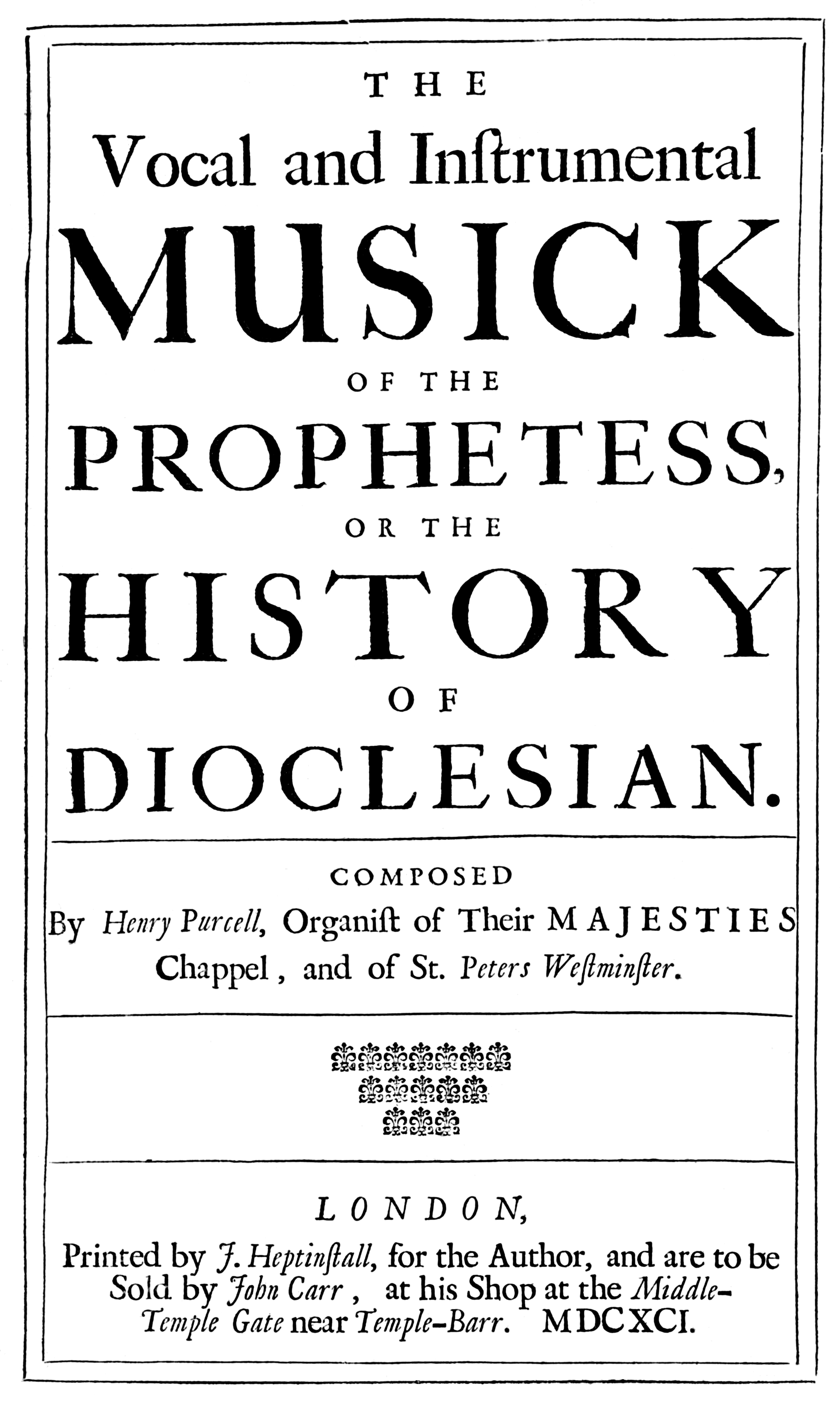 Purcell - The Prophetess - title page of the score - London 1691